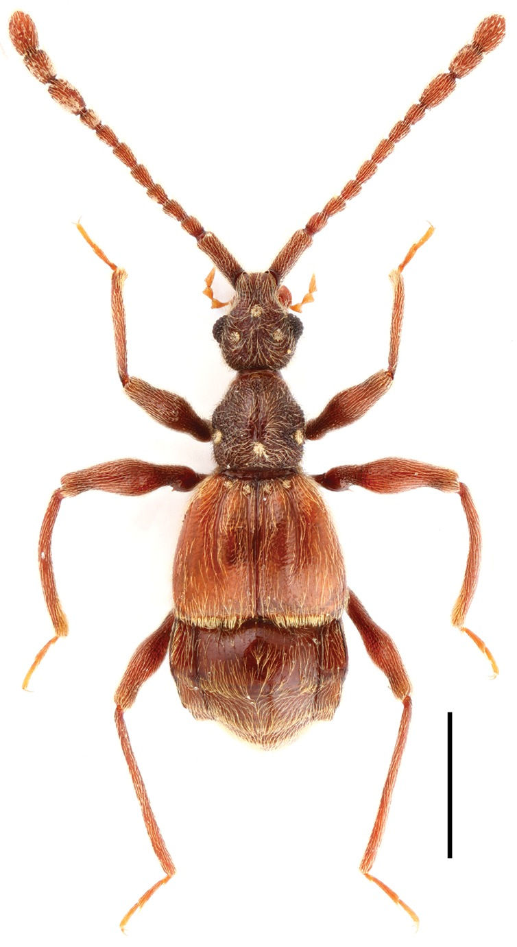 Male habitus of Pselaphodes tianmuensis. Scale: 1.0 mm.